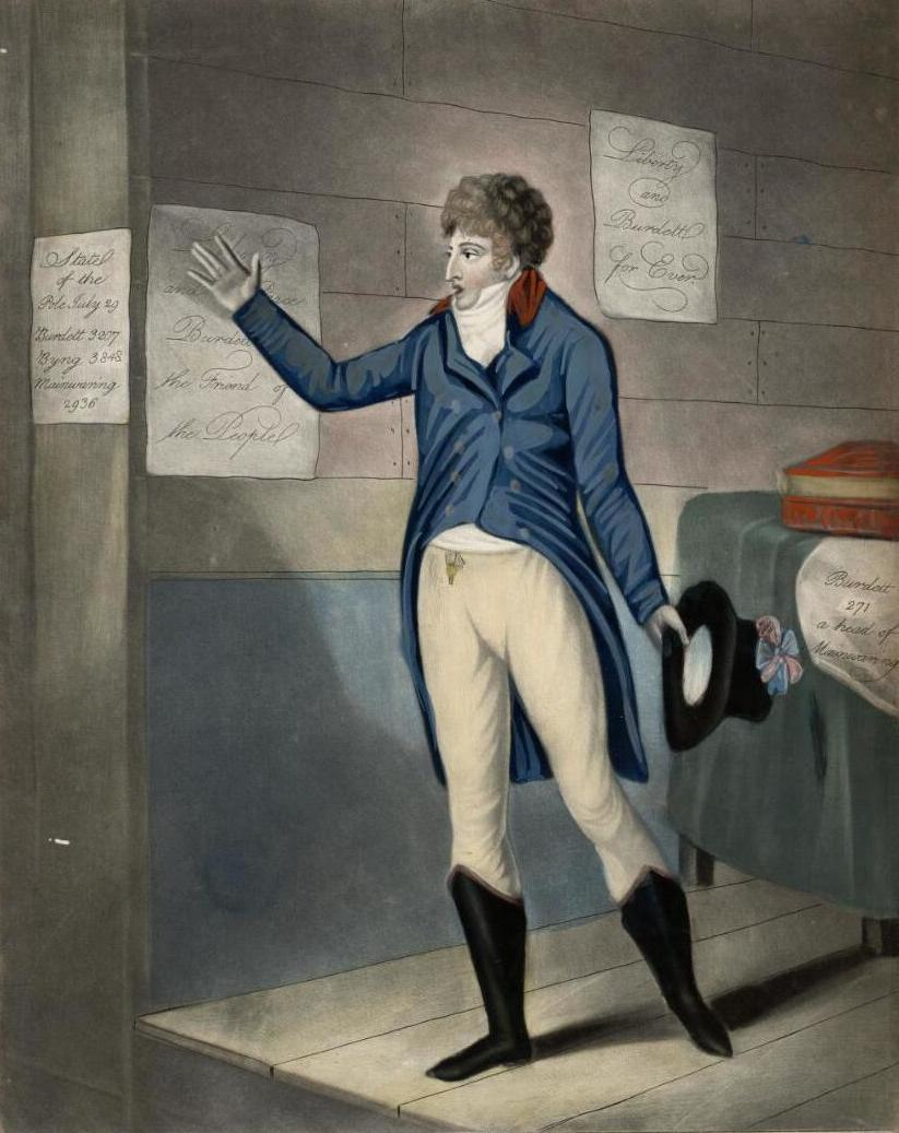 A portrait from the Welsh Portrait Collection at the National Library of Wales. Depicted person: Francis Burdett – British politician